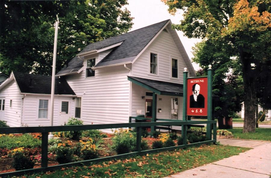 Bethune Memorial House Visitor Centre 2003 Gravenhurst, Ontario This is the Visitor Centre located immediately north of Norman Bethune's historic house. Tours of the house start here at the visitor centre. It is very popular with our Chinese visitors.